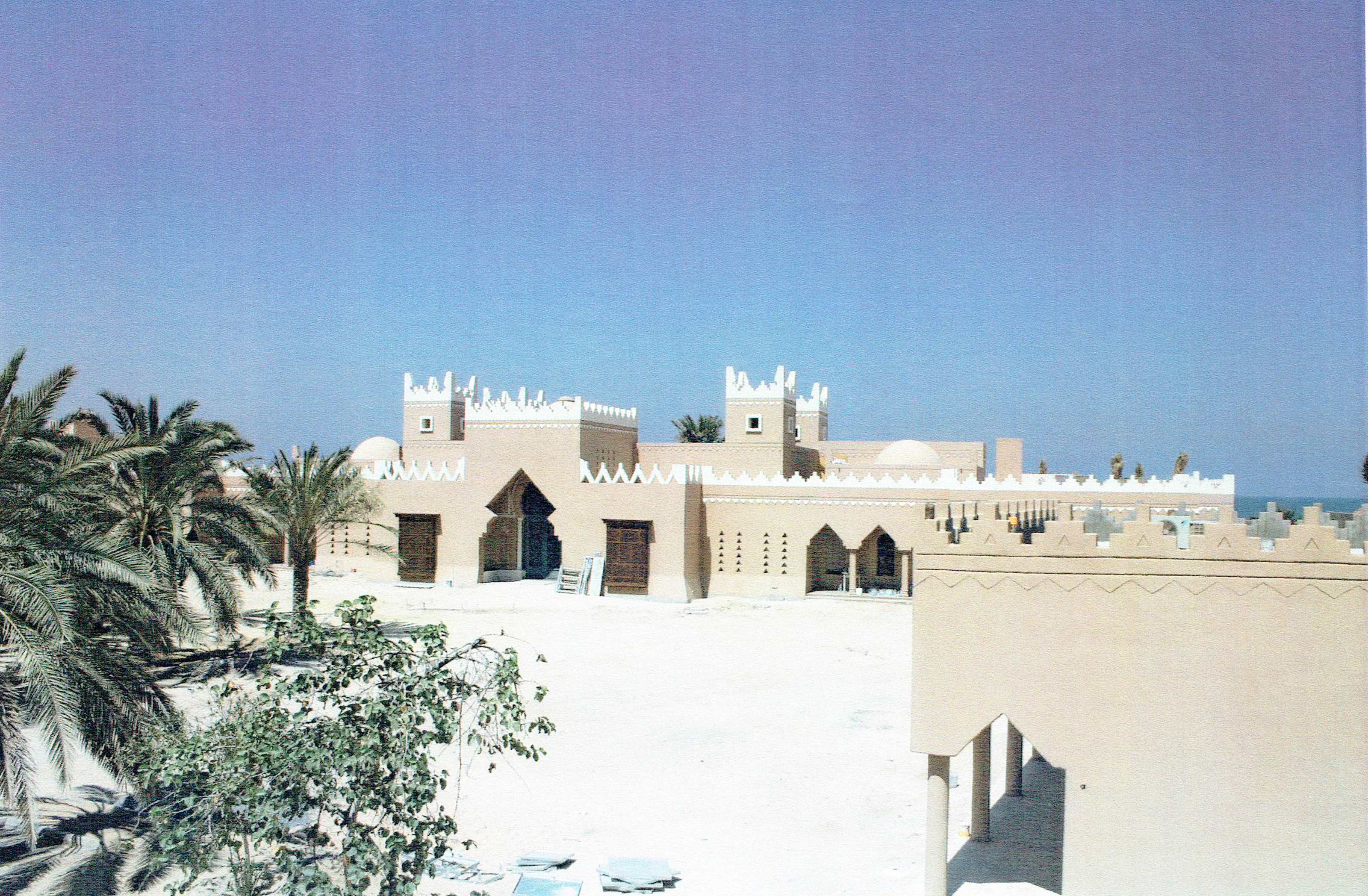 Seaside Chalet in Kuwait by Basil Al Bayati